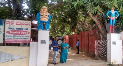 Waxmuseum mysore மெழுகு அருங்காடசியகம் மைசூர்